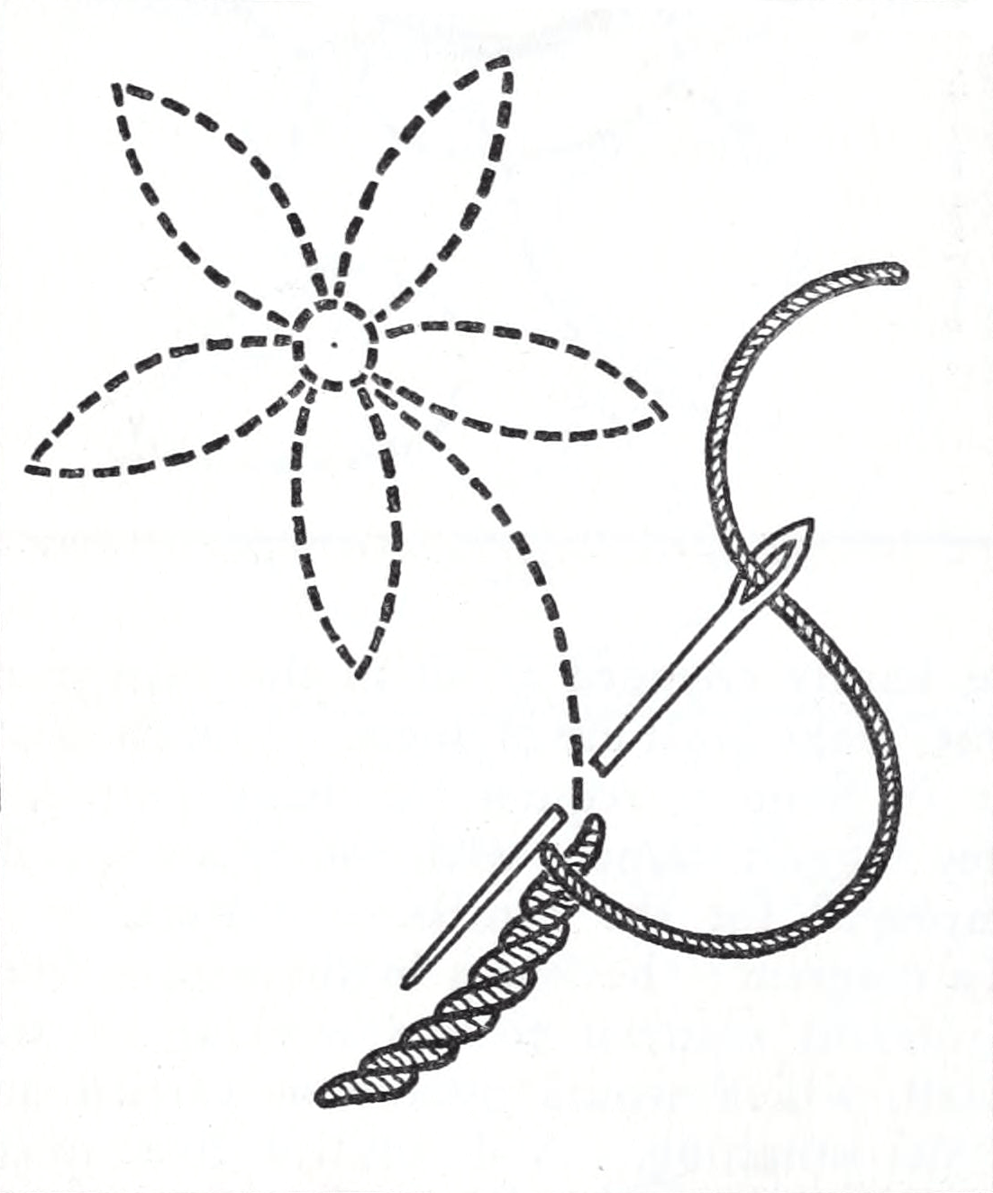 The stem stich